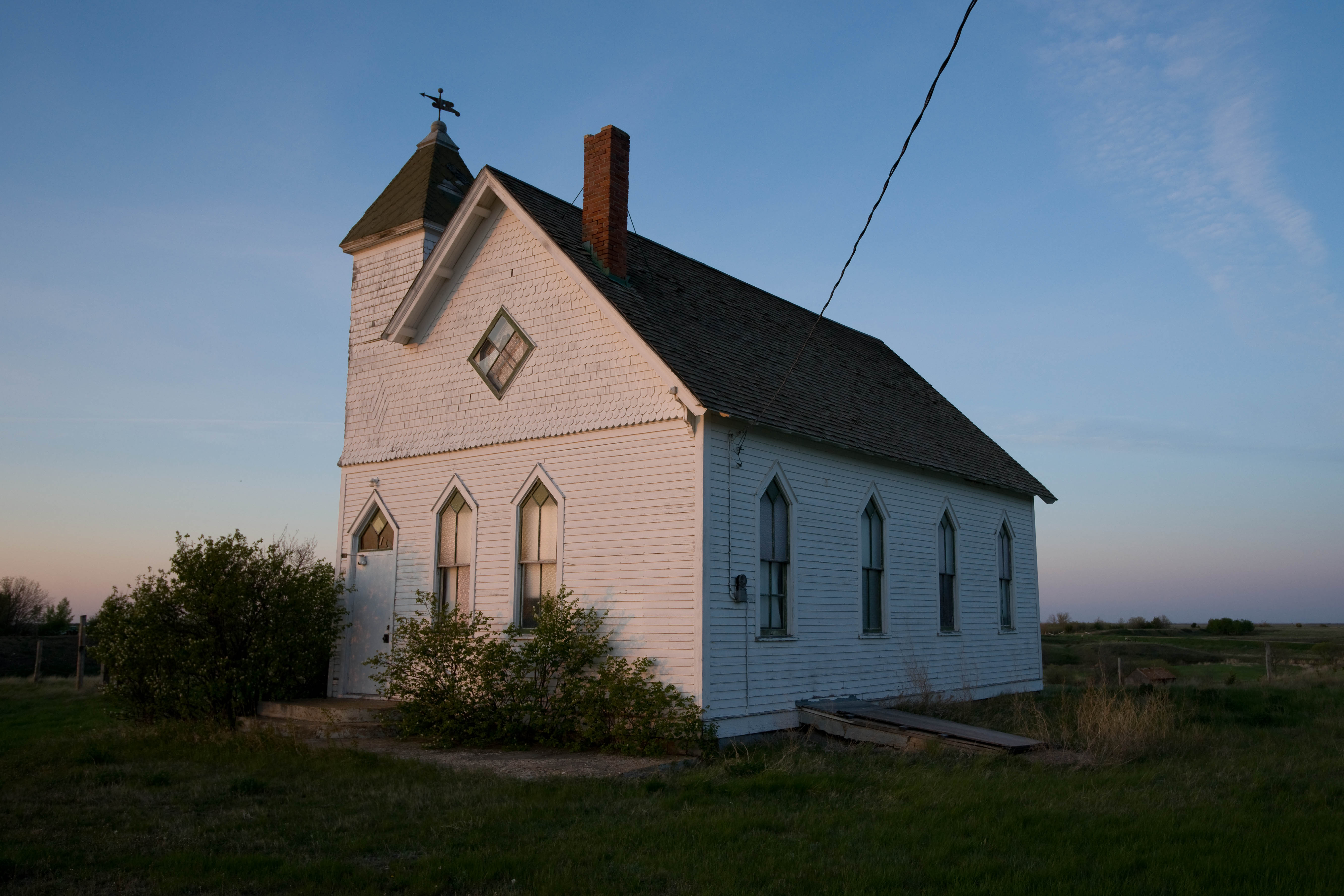 From